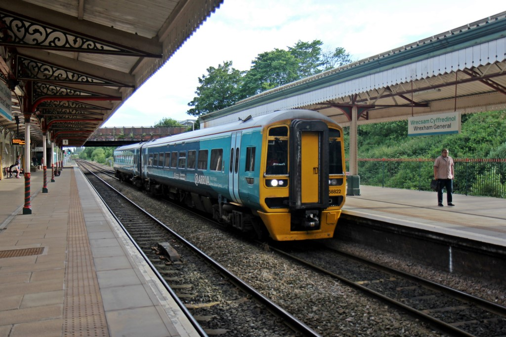 Arriva Trains Wales Class 158, 158822, Wrexham General railway station